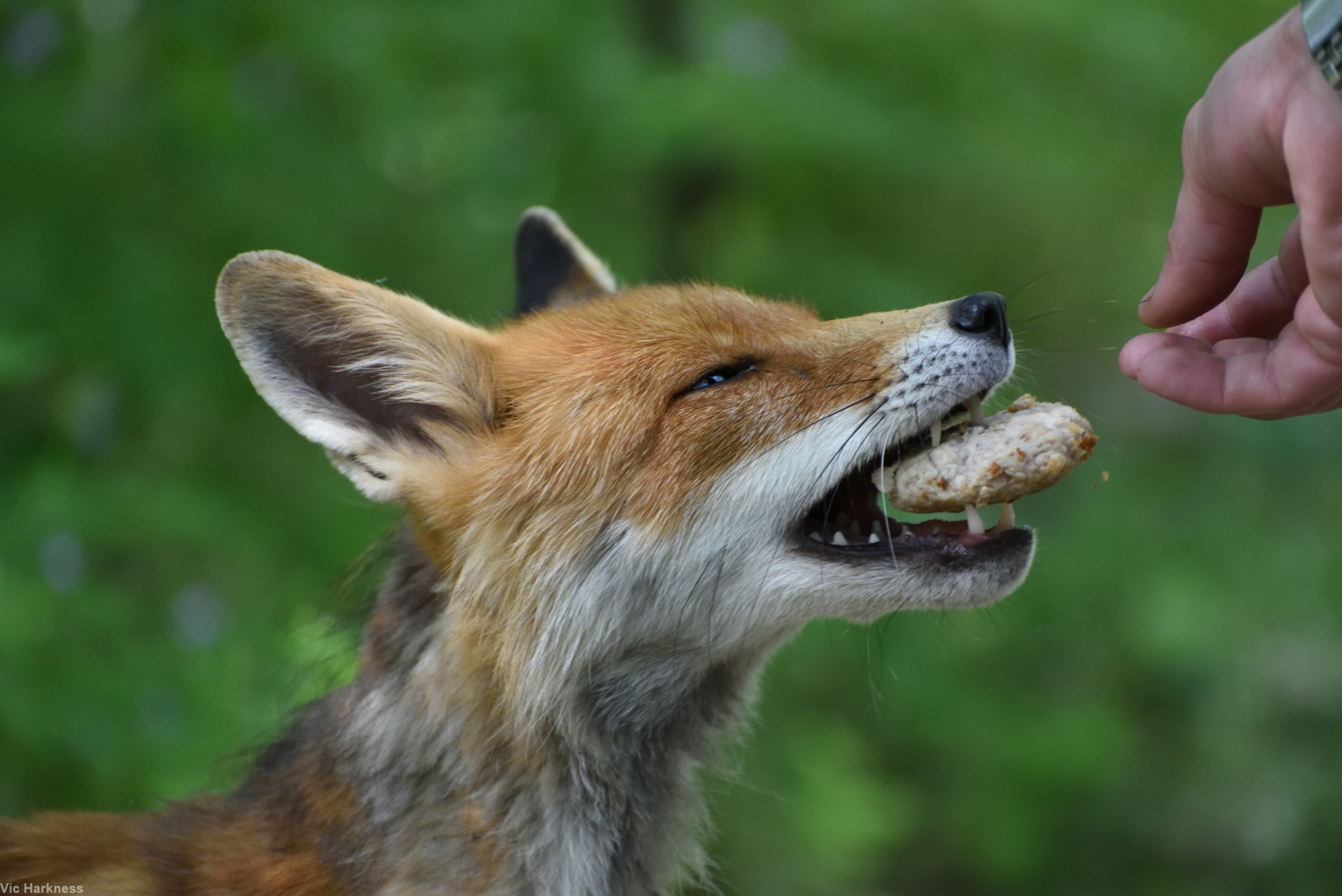 A fox in the Chernobyl Exclusion Zone being fed with a Ukrainian fried meatball (kotleta).